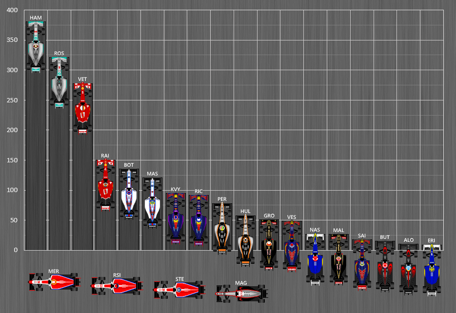 chart of final standings of the 2015 Formula One season